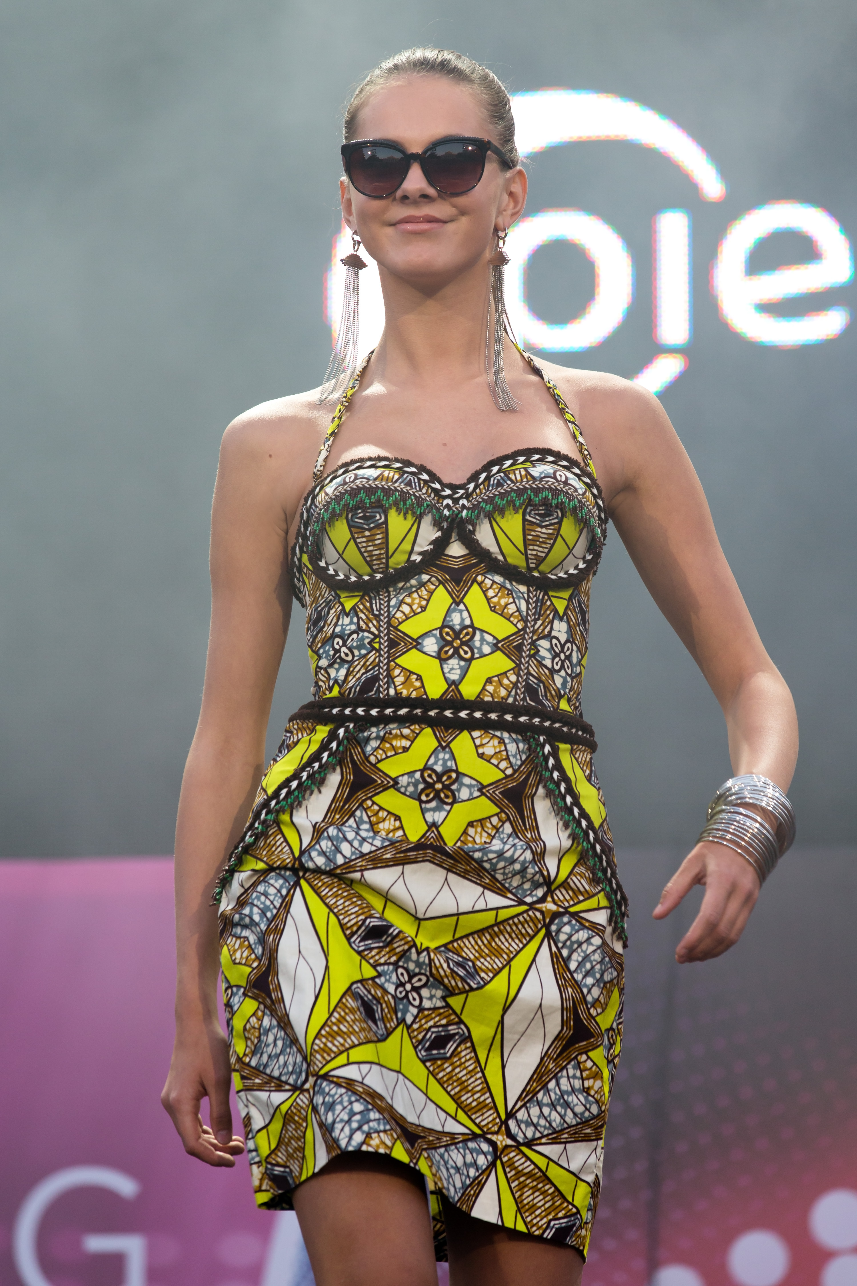 Fashion by Lena Hoschek at Fashion for Europe at Eurovision Village on Rathausplatz, a public event location of the Eurovision Song Contest 2015 in Vienna, Austria.